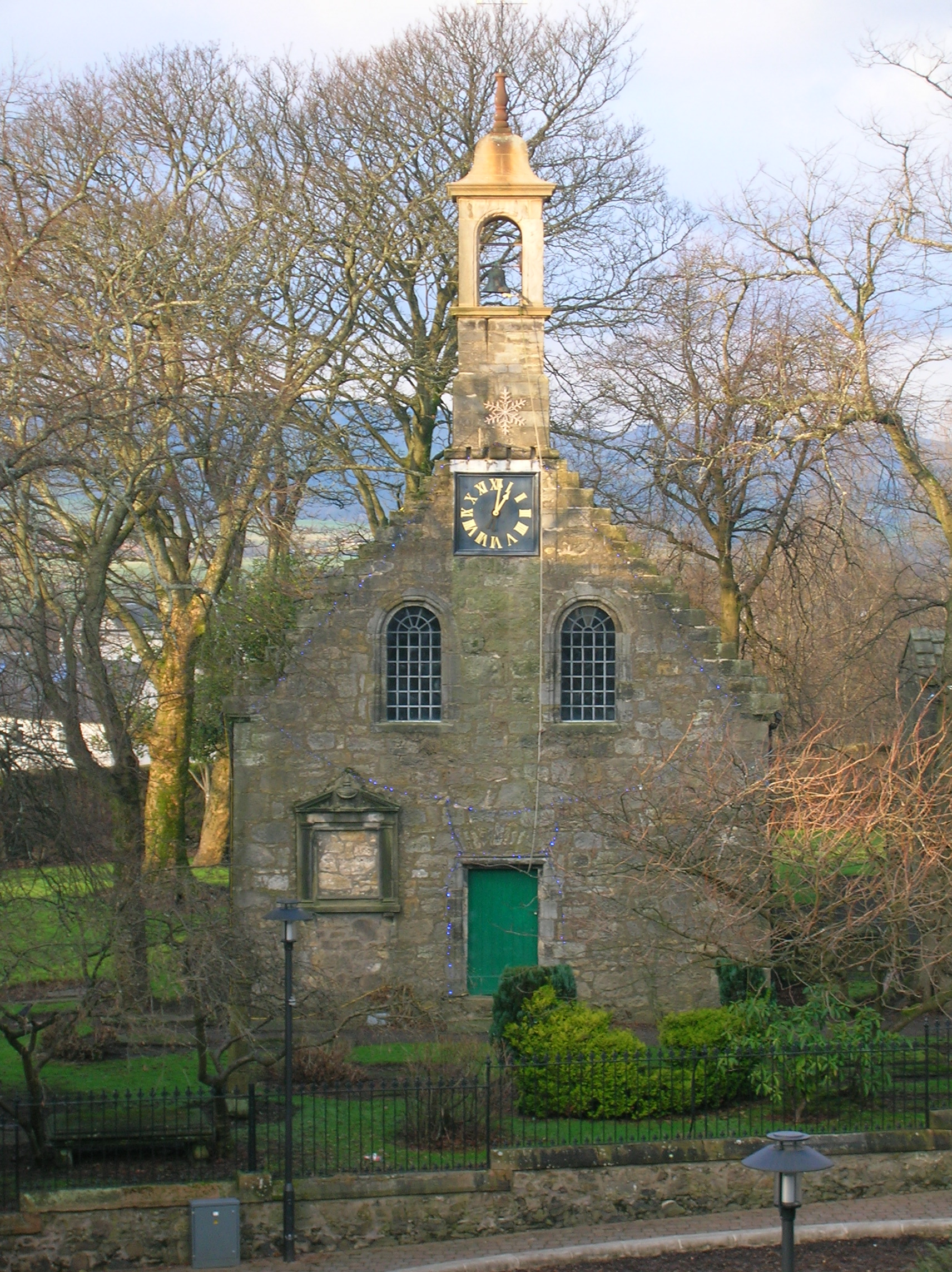 Beith Old Kirk. North Ayrshire. Scotland.